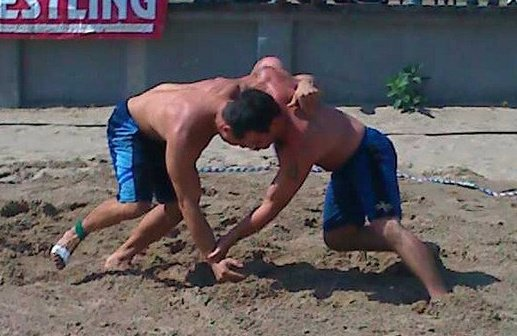 Anthony Gallton (left) vs Robert Teet (right) during USA Wrestling's 2010 World Team Trials for beach wrestling. Lightweight division. Rochester, New York